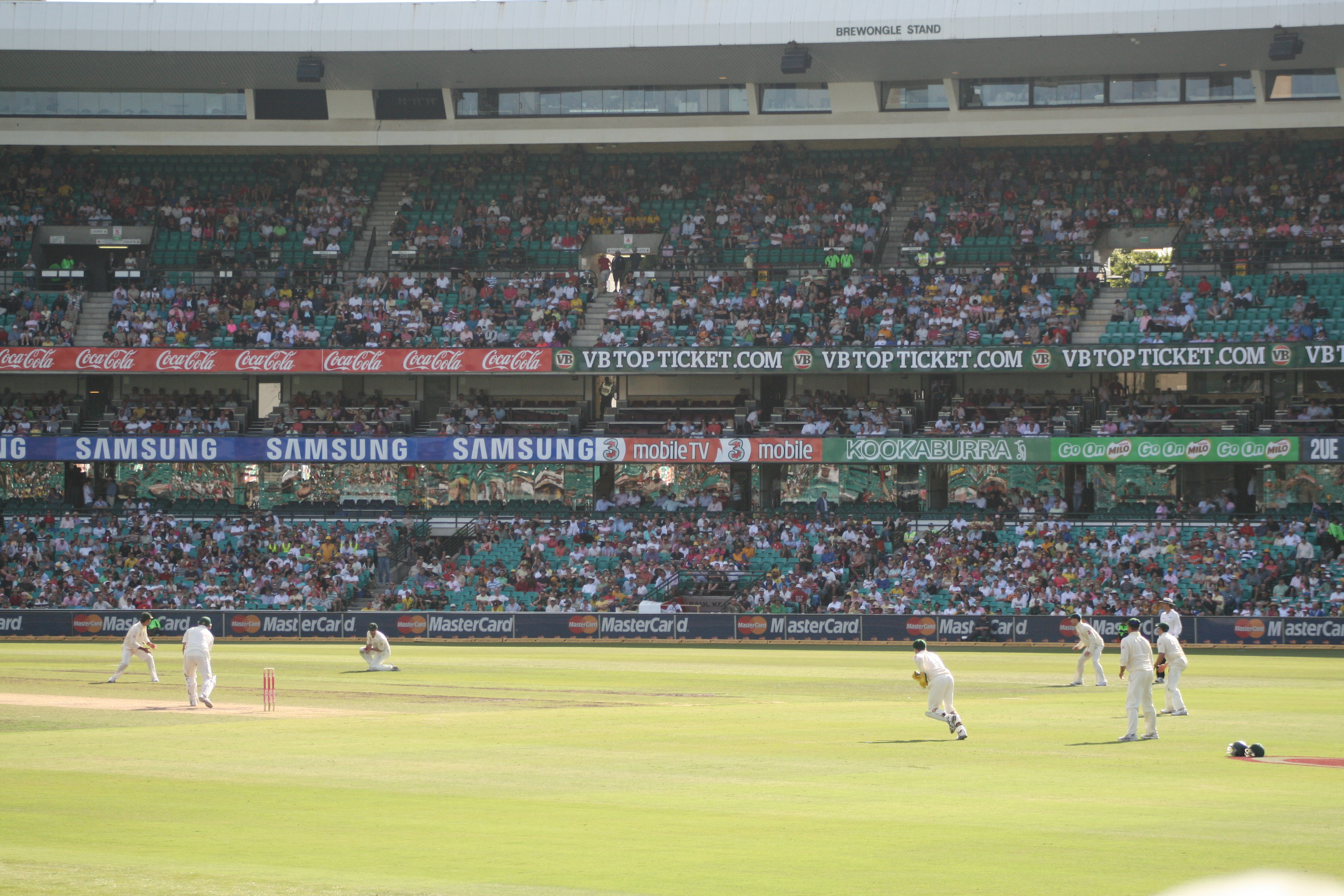 A cricket shot from Privatemusings, taken at the third day of the SCG Test between Australia and South Africa.